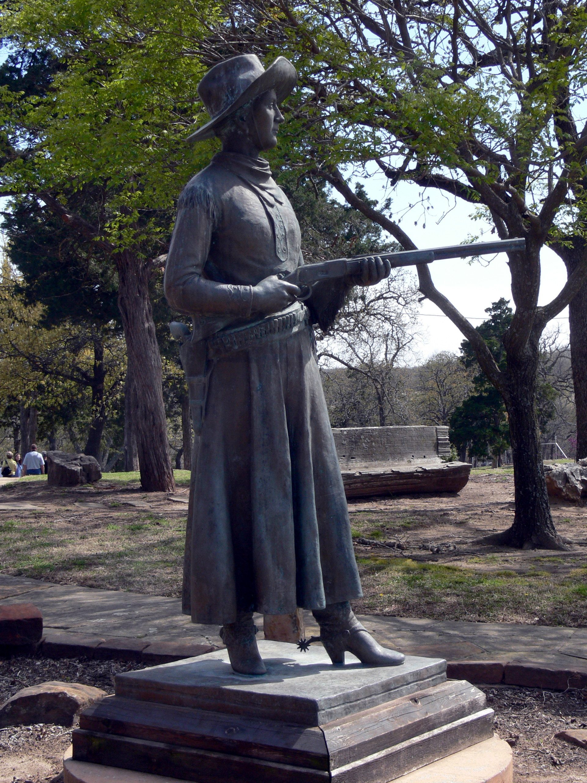 Woolaroc, Oklahoma. Statue of Belle Starr, a female American outlaw.